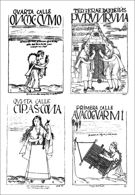 Poma de Ayala